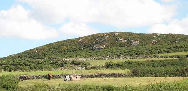 Trevalgan Hill. Taken from near Trevessa farm.